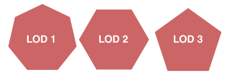 This is an simplified example of a 3D object's geometrically using a level of detail technique. LOD0 is the highest detail version of the object.